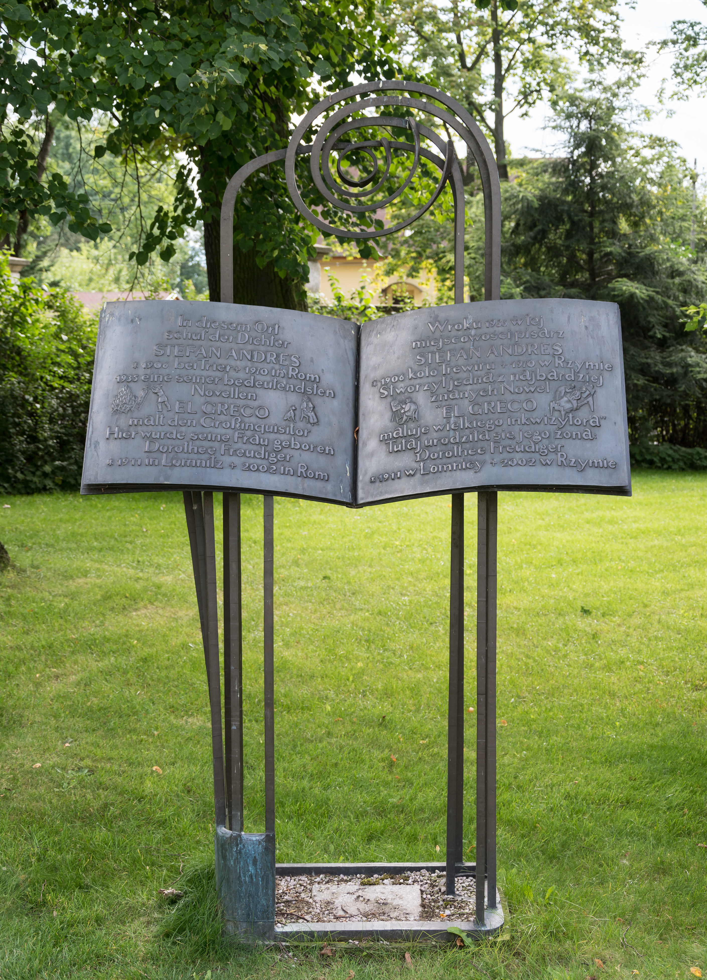 Łomnica Palace Park, Stefan Andres memorial